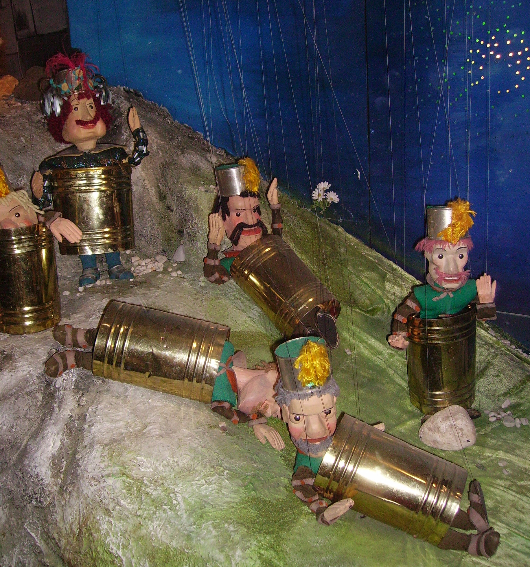 Augsburger Puppenkiste